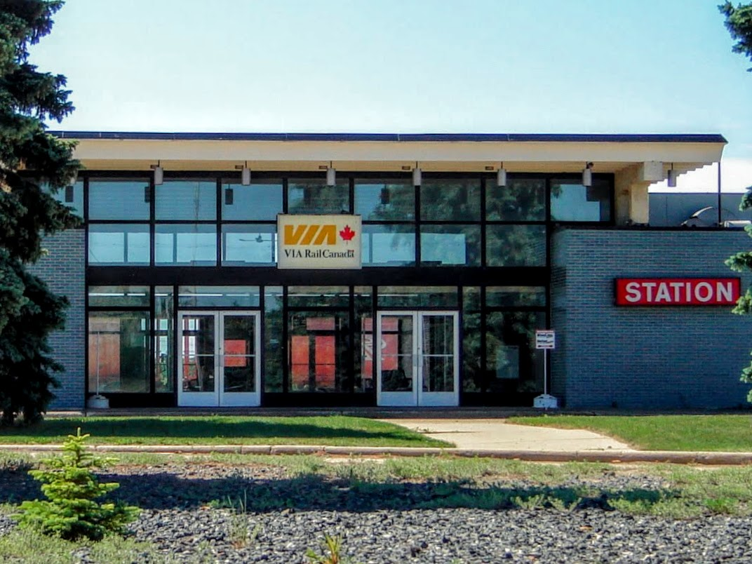 CN Chappell Yards Gare Via Station. CN yards Management Area Saskatoon|Saskatoon